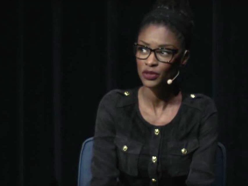 Dutch TV-host and politician Sylvana Simons during an interview by Wilfred Genee. De Balie, Amsterdam, 26 Nov. 2016.